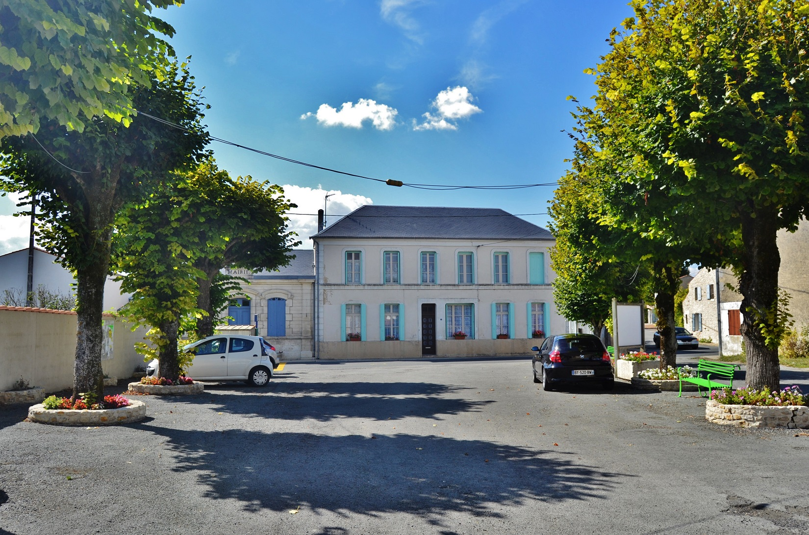 La Mairie